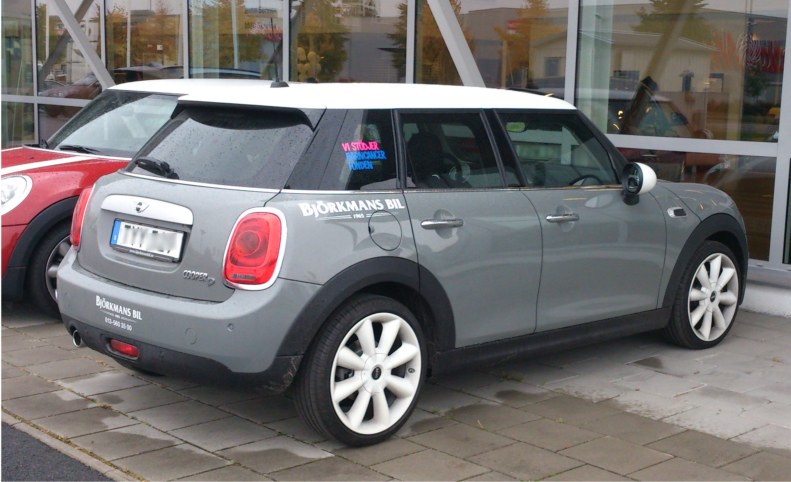 2015 BMW Mini 5-door (F55)